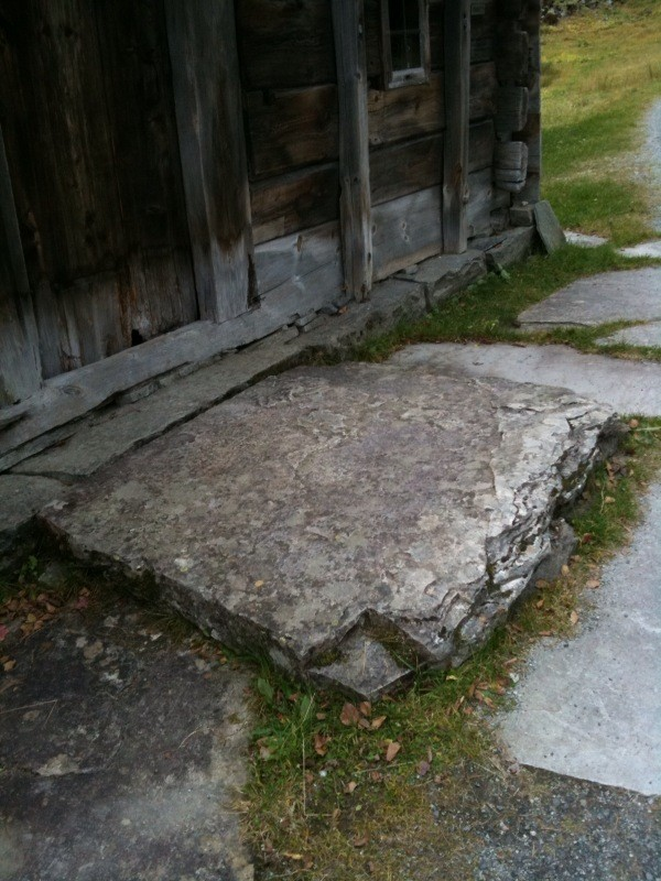 An image of a doorstep in stone